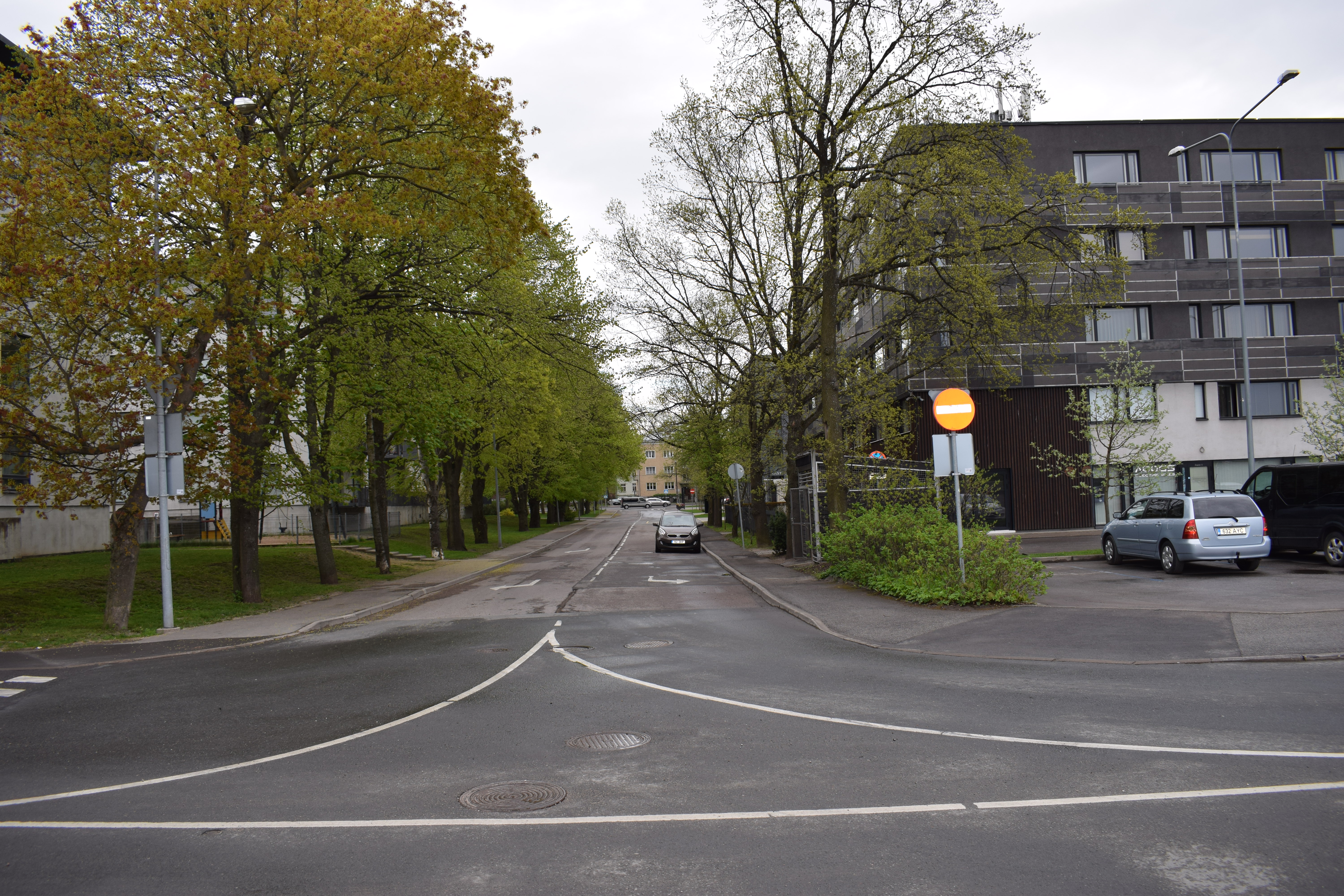 Bensiini street